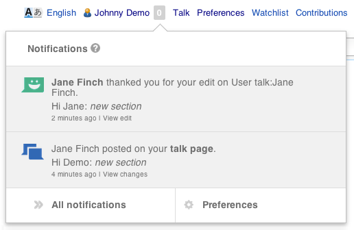 Screenshot for the Wikimedia Foundation's new Notifications program. Learn more.